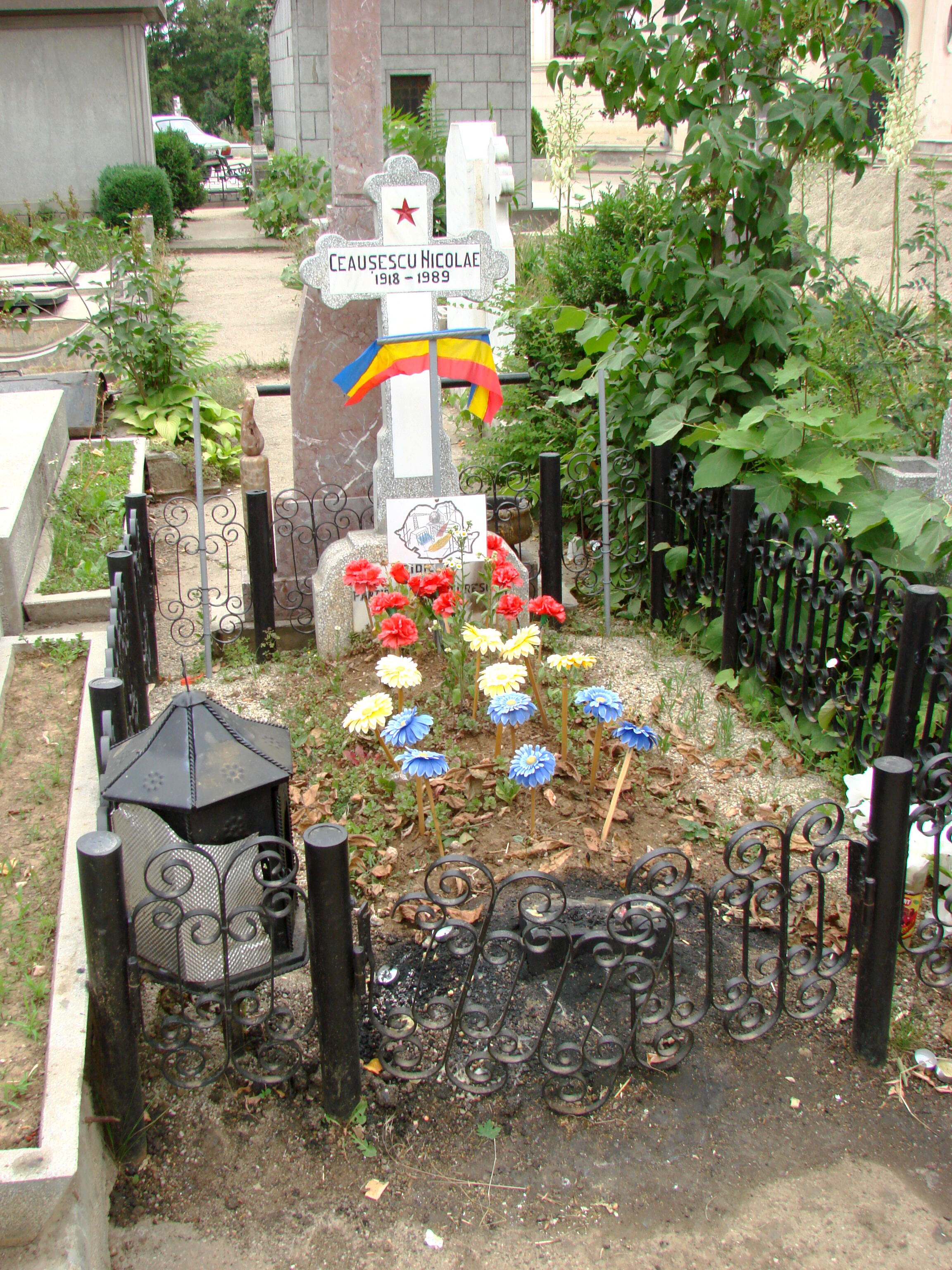 Grave of the former dictator Nicolae Ceausescu, Ghencea Civil Cemetery, Bucharest, Romania. Ceausescu was killed in the 1989 uprising. June 2007 photo.